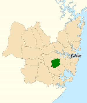 This image incorporates data that is: © Commonwealth of Australia (Australian Electoral Commission) 2009 Division of Watson 2010